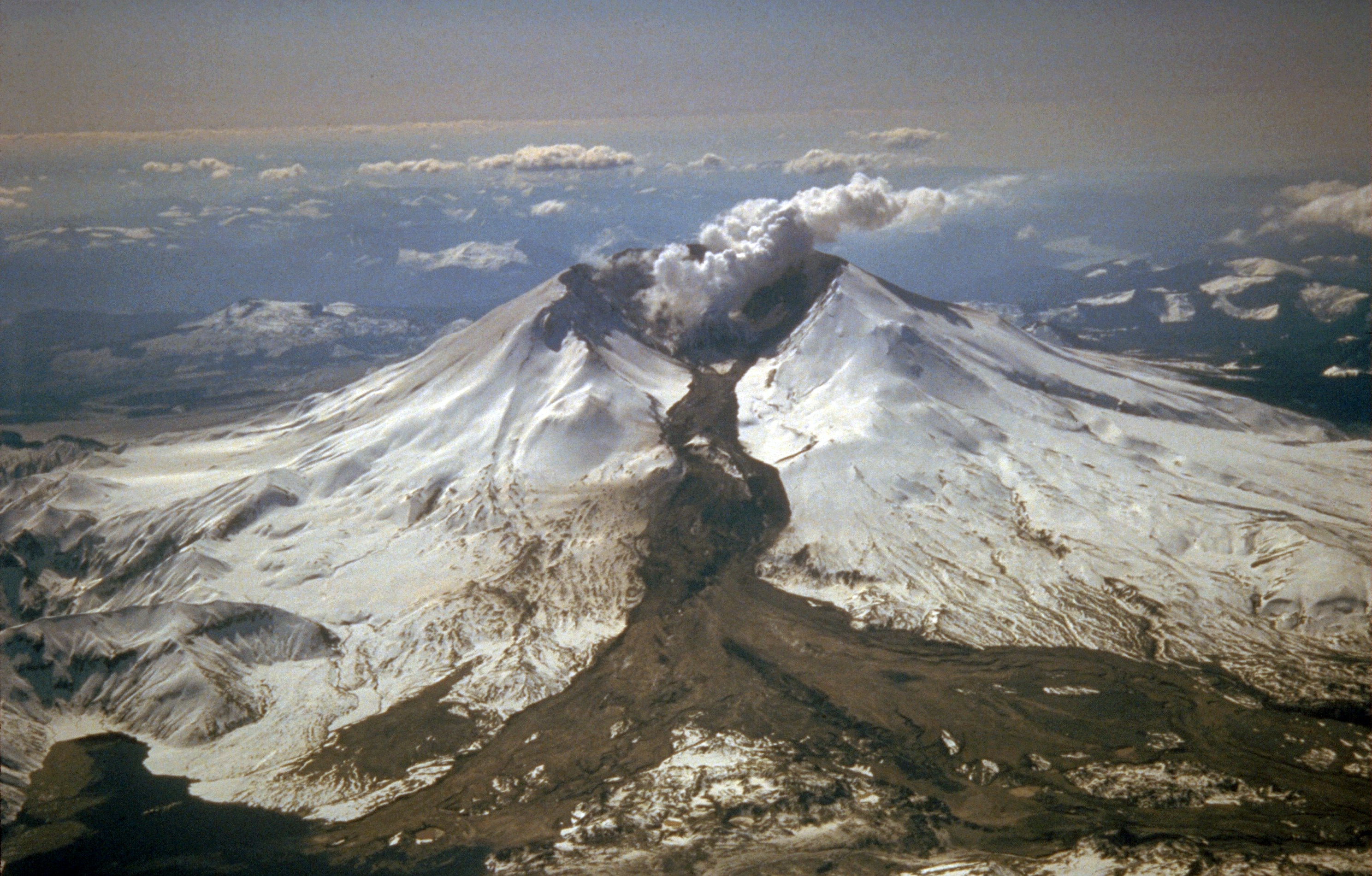 Mount St. Helens erupted often between 1980 and 1986. An explosive eruption on March 19, 1982, sent pumice and ash 9 miles (14 km) into the air, and resulted in a lahar (the dark deposit on the snow) flowing from the crater into the North Fork Toutle River valley. Part of the lahar entered Spirit Lake (lower left corner) but most of the flow went west down the Toutle River, eventually reaching the Cowlitz River, 50 miles (80 km) downstream.